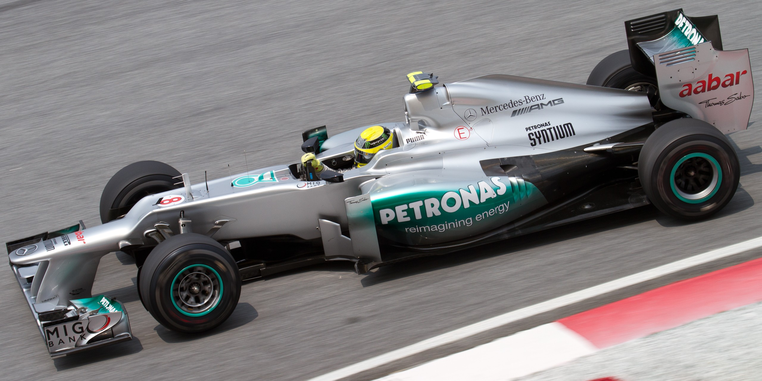 Formula One 2012 Rd.2 Malaysian GP: Nico Rosberg (Mercedes) during the second practice session on Friday.